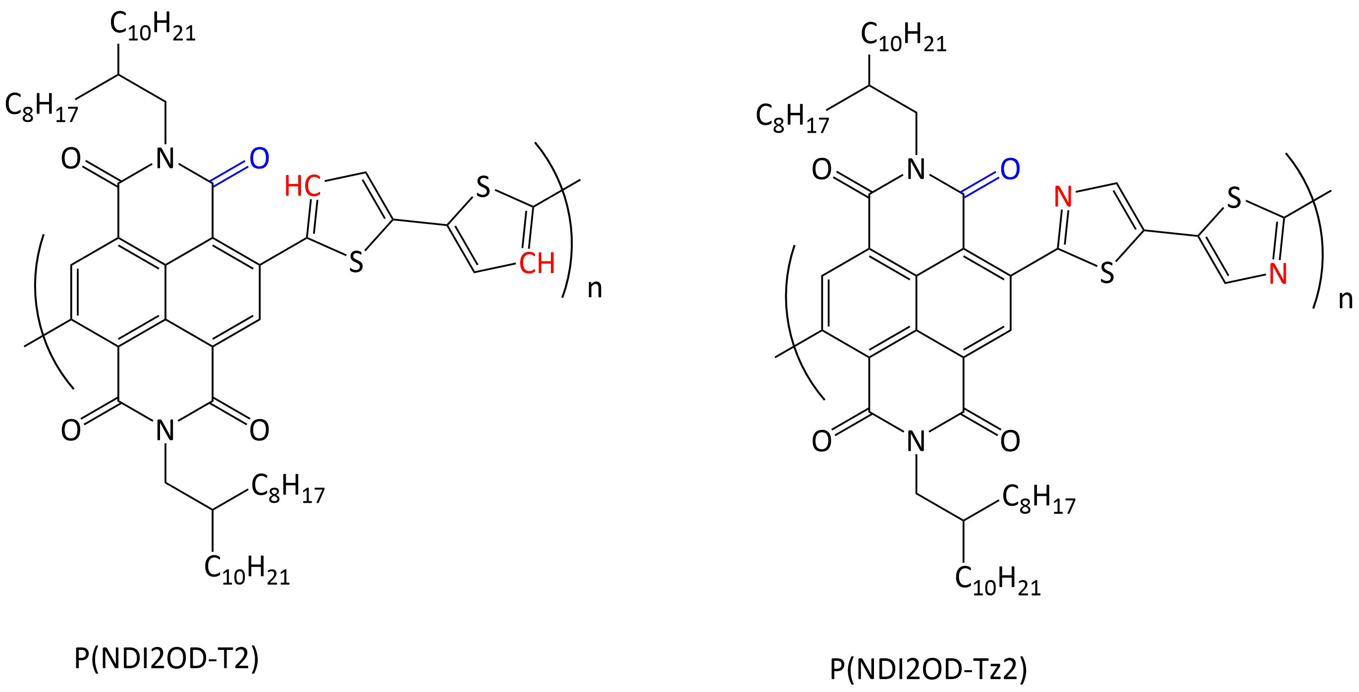 P(NDI2OD-T2) - P(NDI2OD-Tz2) differences